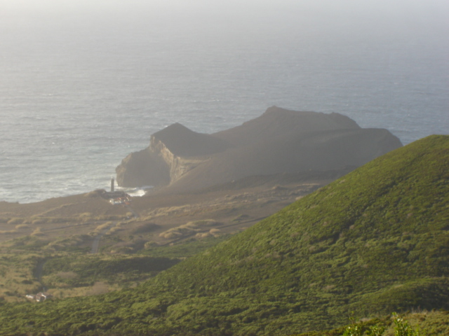 A vista from the summit of Cabeço Verde, of the Capelinhos volcano and Costa Nau